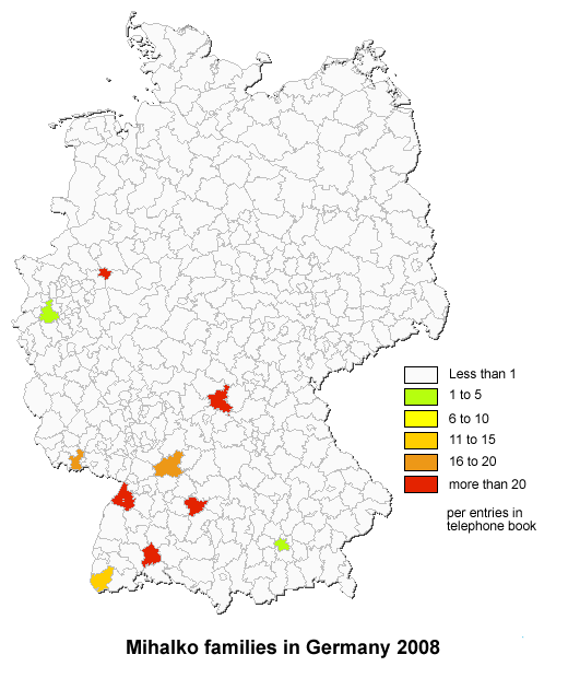 Map of Mihalko family distribution in Germany